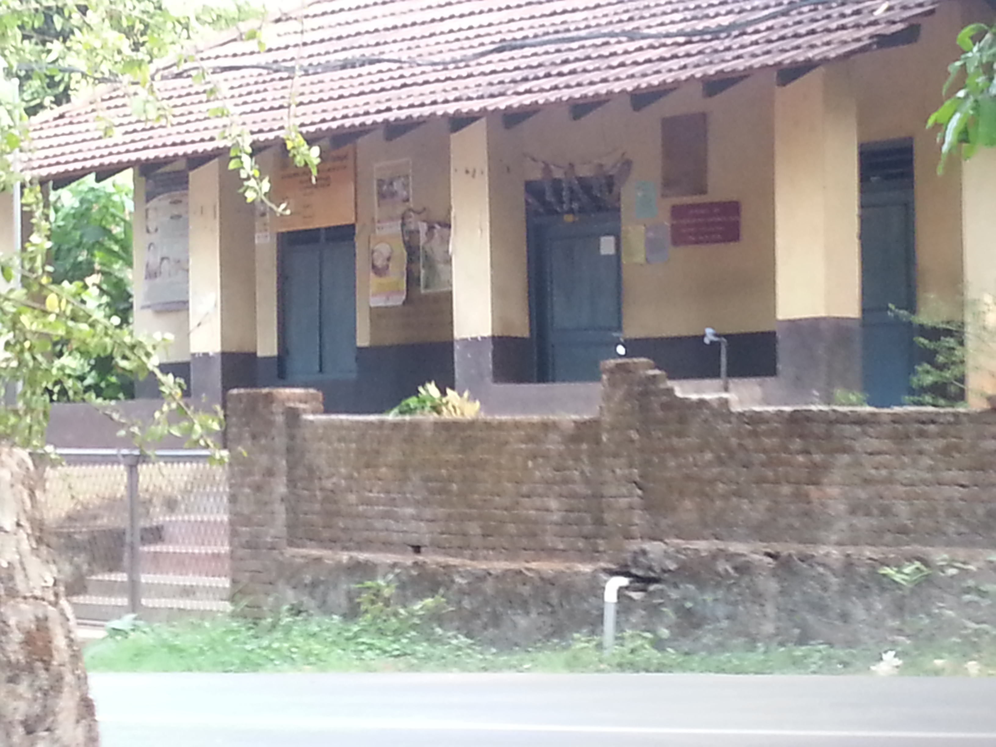 This is the picture of muthukurussi balavadi, po elad via cherukara keralam 679340